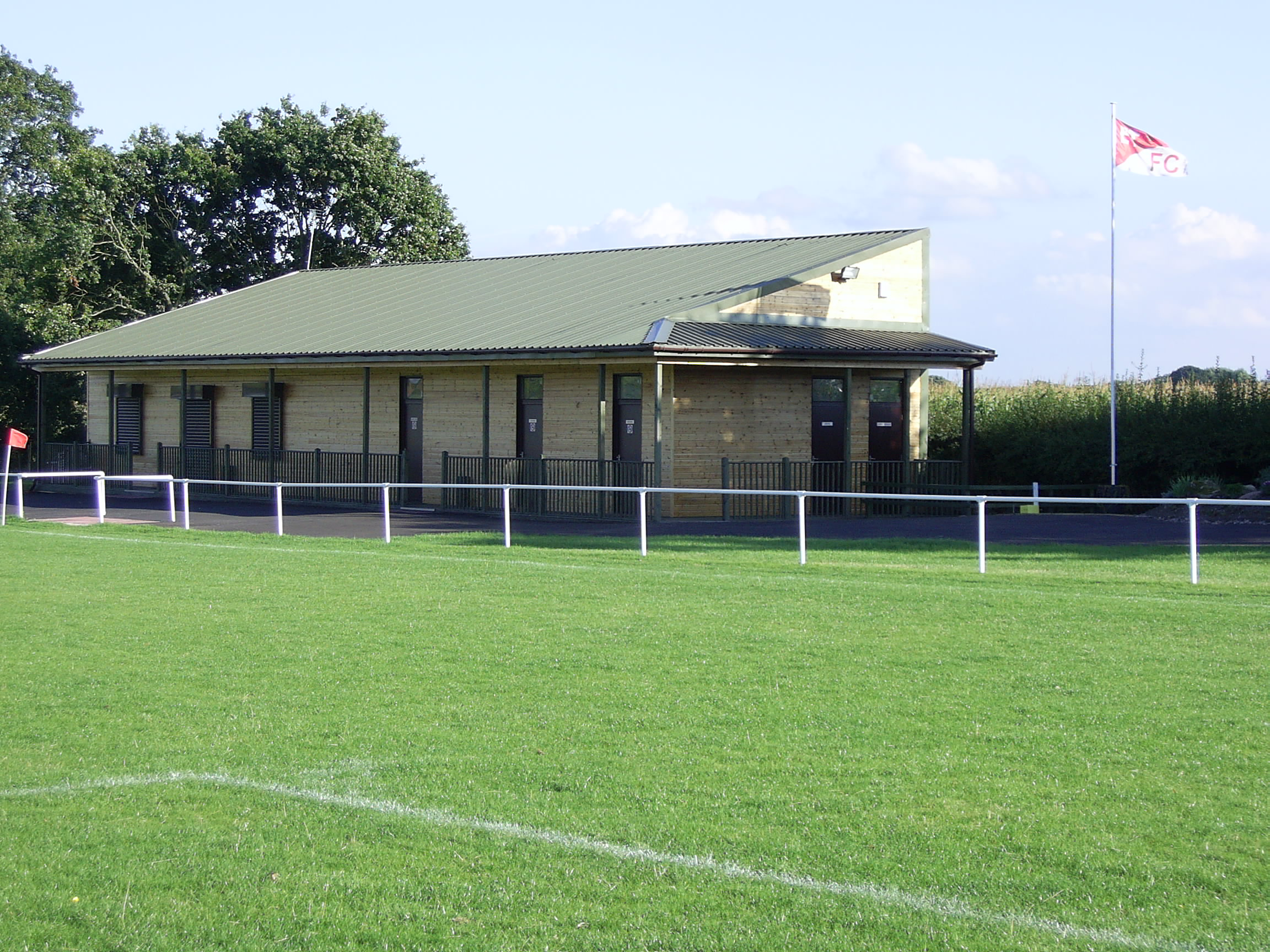 Earlswood Town].